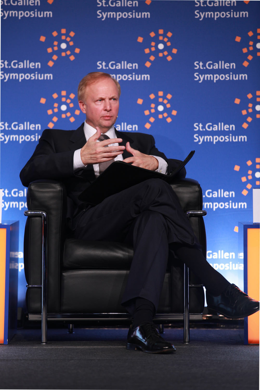 Bob Dudley in May 2011 at the 41. St. Gallen Symposium at the University of St. Gallen